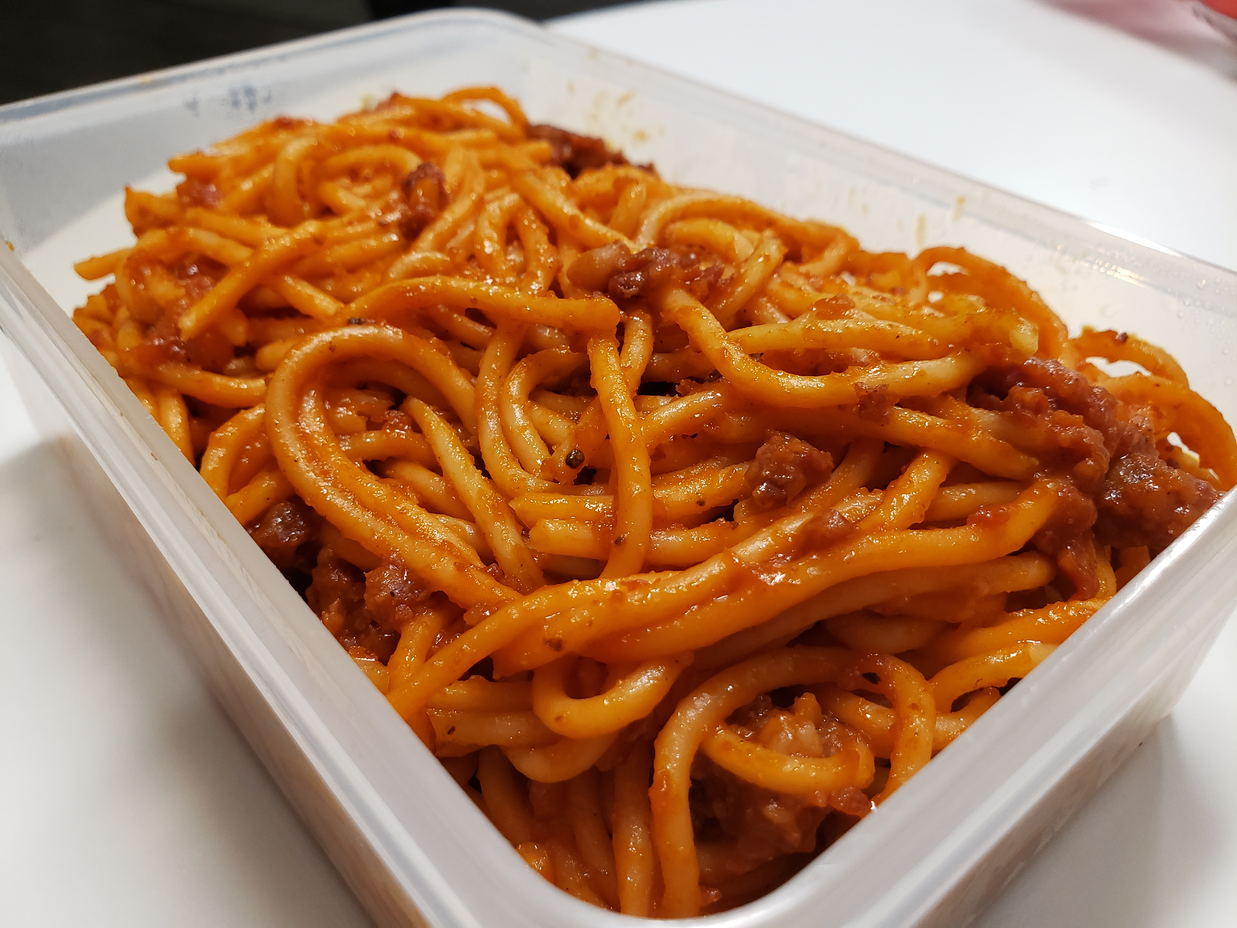 Filipino style spaghetti in Sorrento Valley